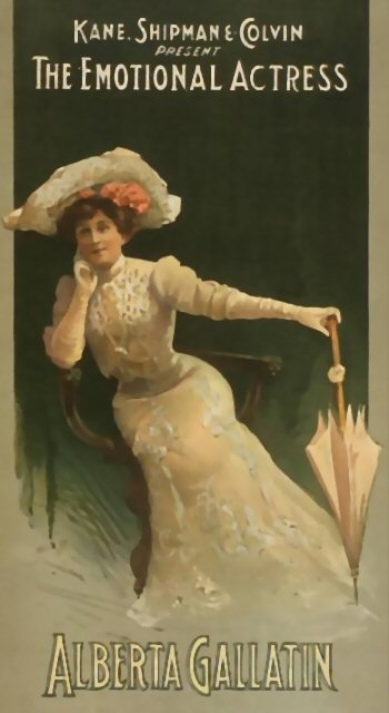 Shipman & Colvin present the emotional actress, Alberta Gallatin